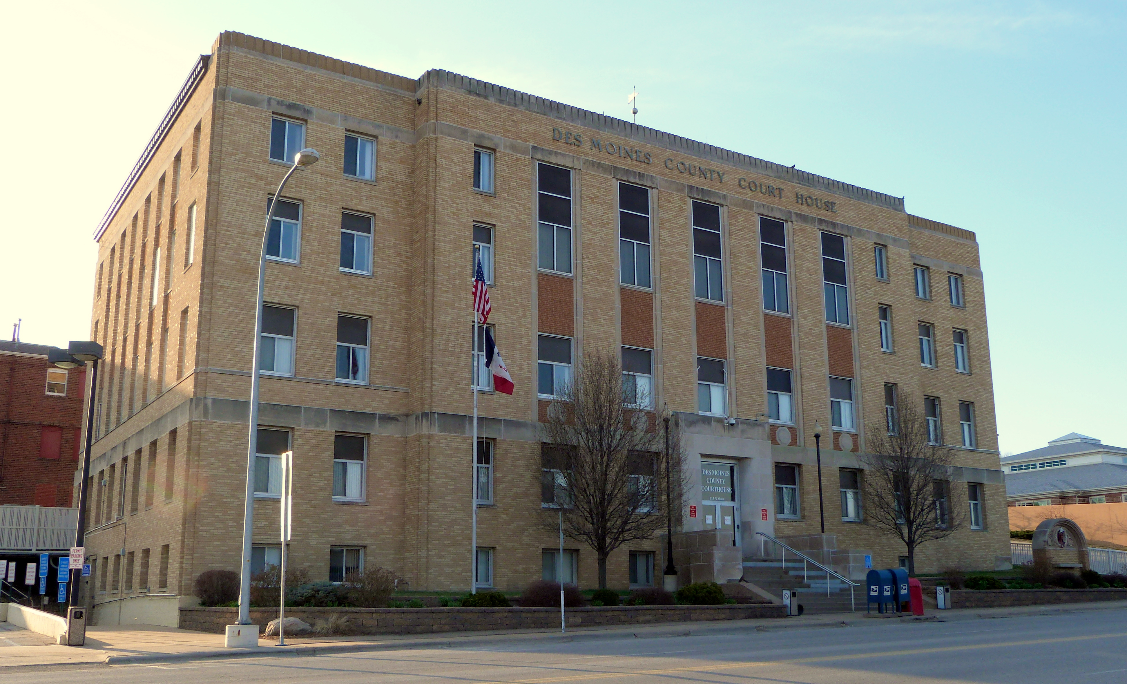 The historic Des Moines County Courthouse (built 1940), located at 513 North Main Street in Burlington, Iowa, United States, is listed on the US National Register of Historic Places.